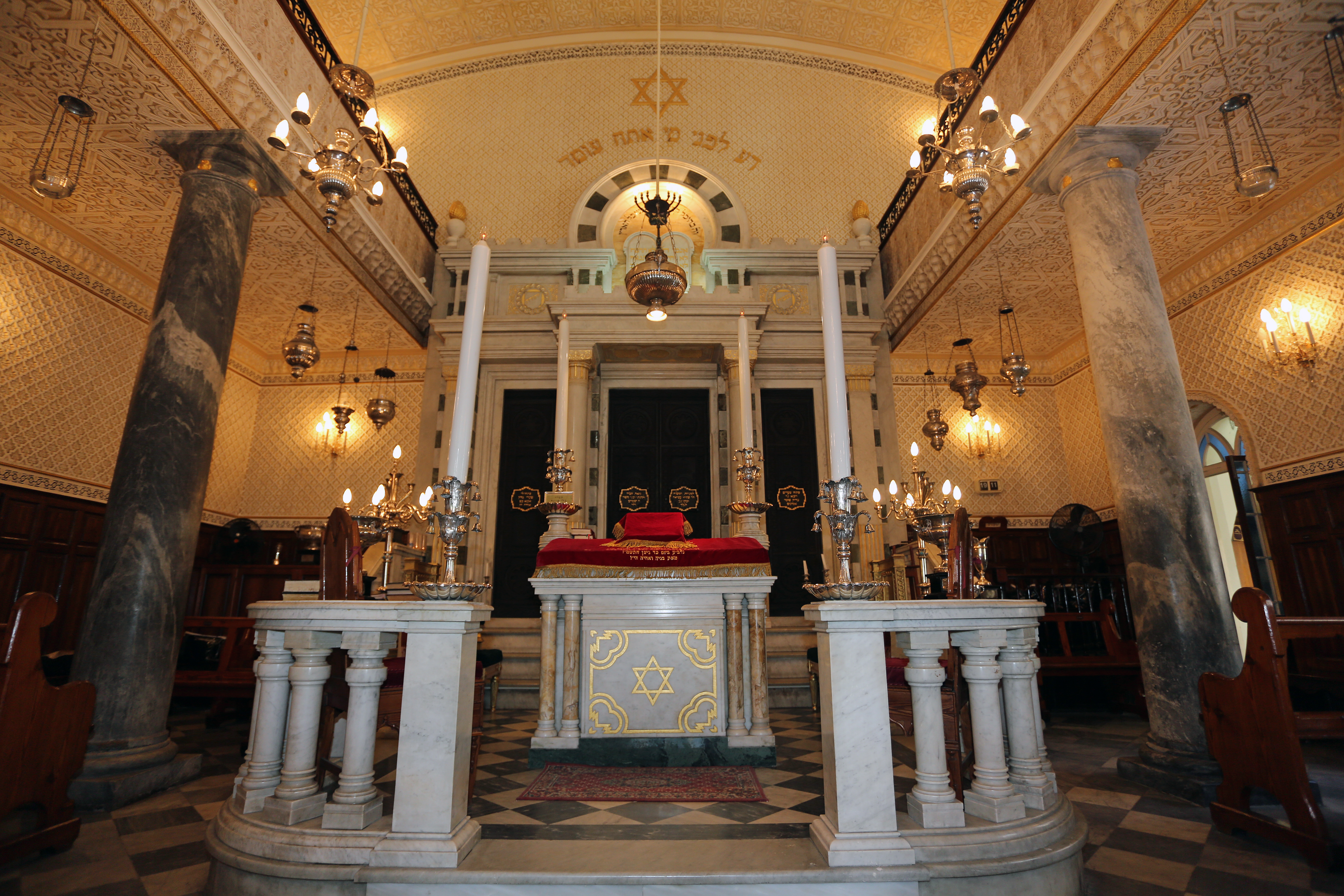 Inside Nefusot Yehuda Synagogue (aka La Esnoga Flamenca/Flemish Synagogue), Line Wall Road, Gibraltar